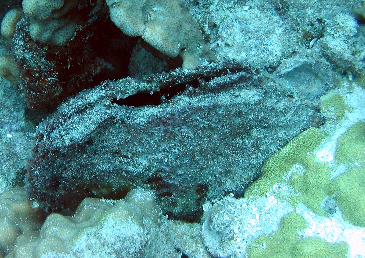 Pearl oyster (Pinctada margaritifera) in lower center of image Image ID: reef0615, NOAA's Coral Kingdom Collection Location: Northwest Hawaiian Islands